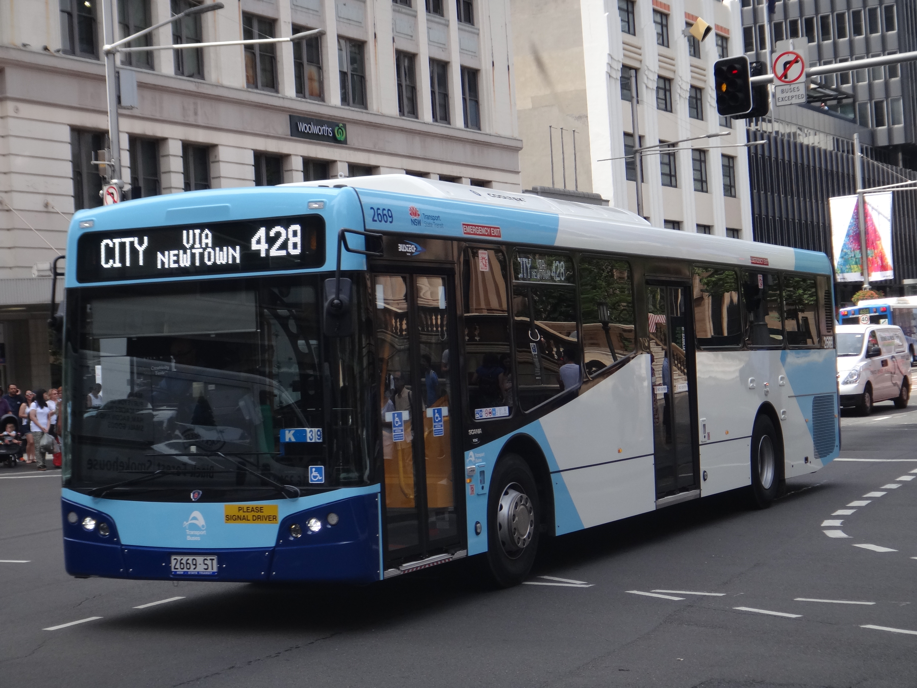 Transport NSW liveried (2601 ST), operated by Sydney Buses, Bustech VST bodied Scania K280UB